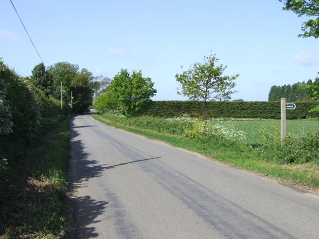 Start of Footpath, Rushmere Road Behind the neat hedge is Early Dawn Nursery and Garden Centre.